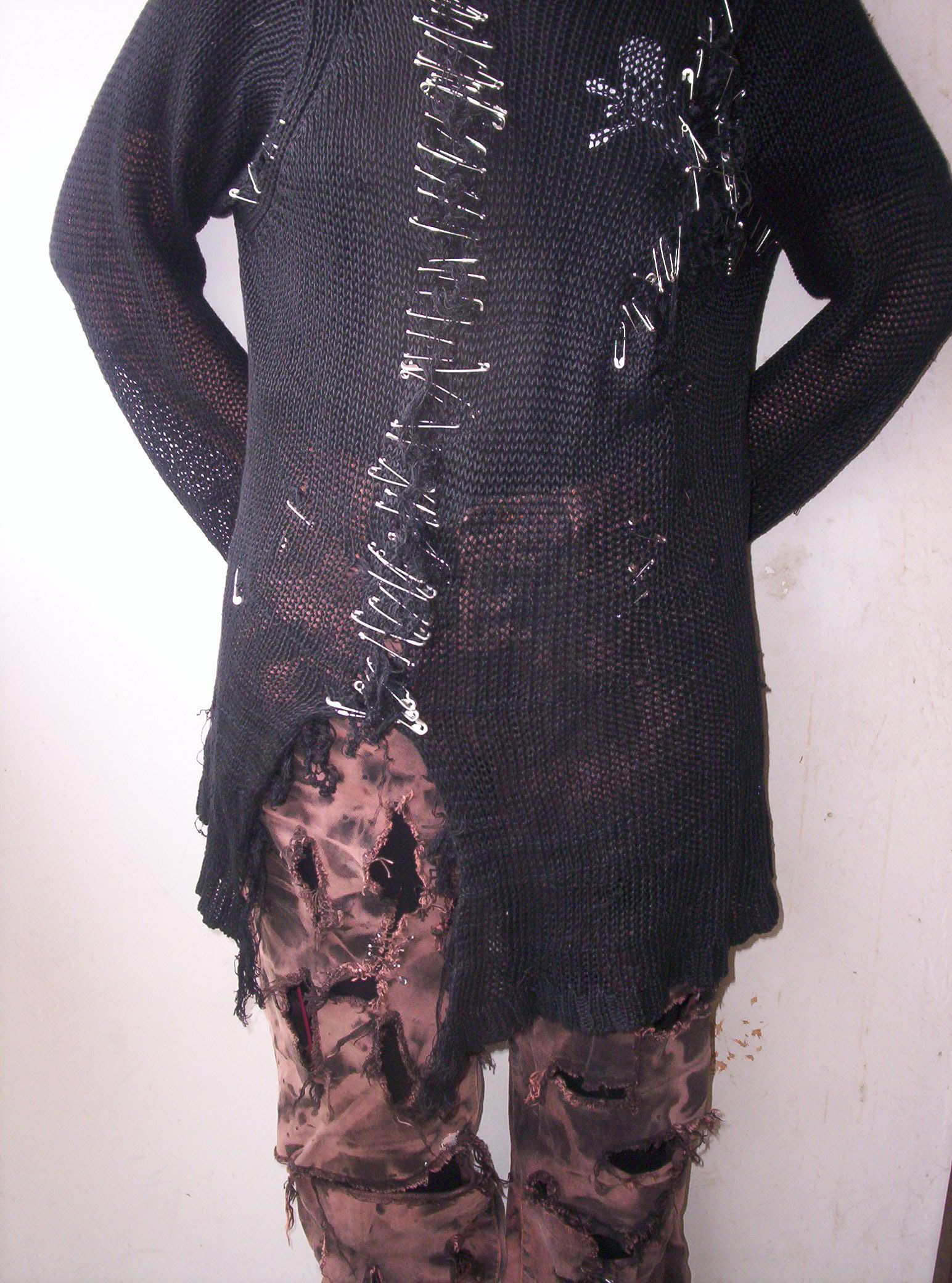 clothes-safetypins.jpg